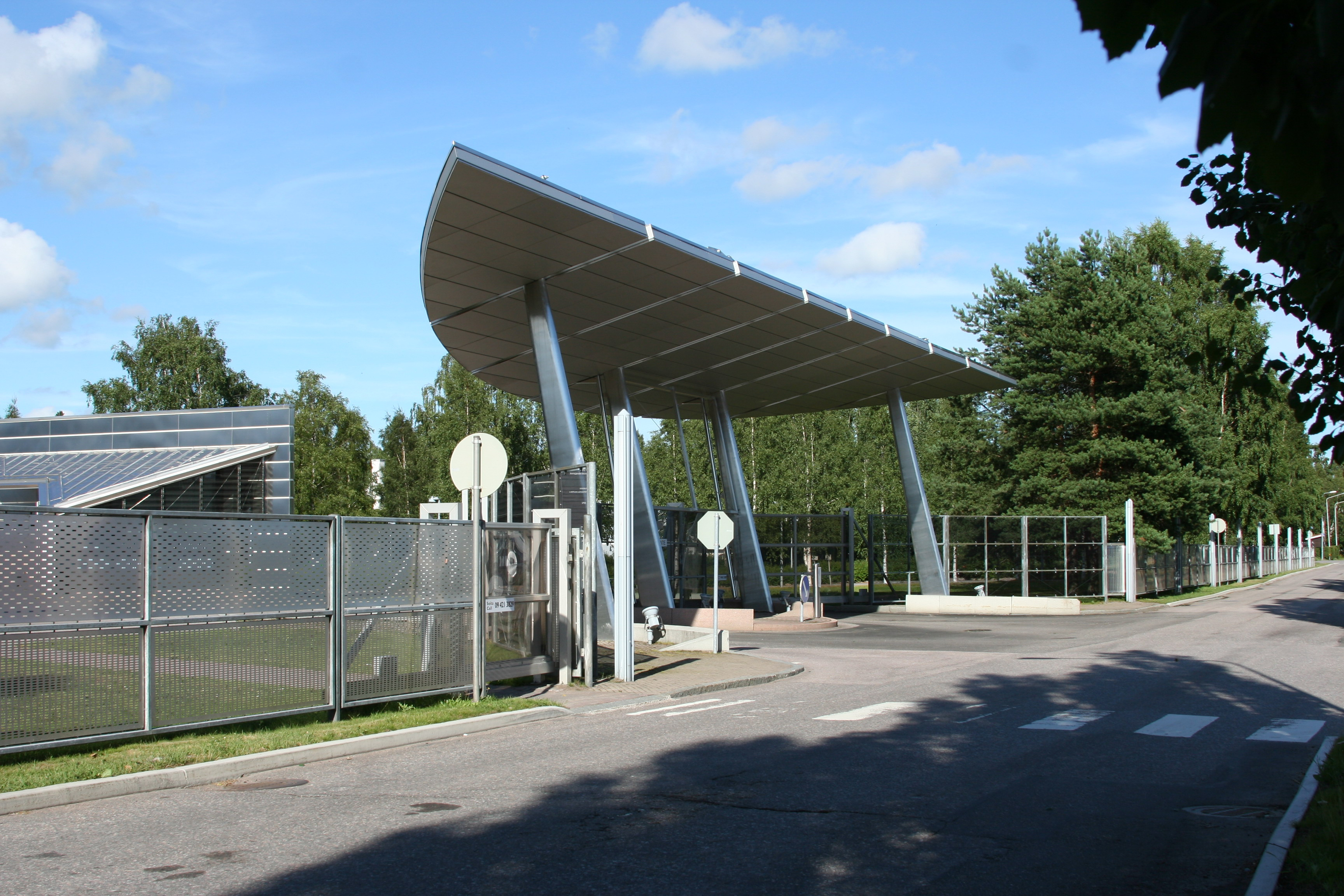 Outokumpu Group Headquarters, steel gate and canopy, Espoo, Finland